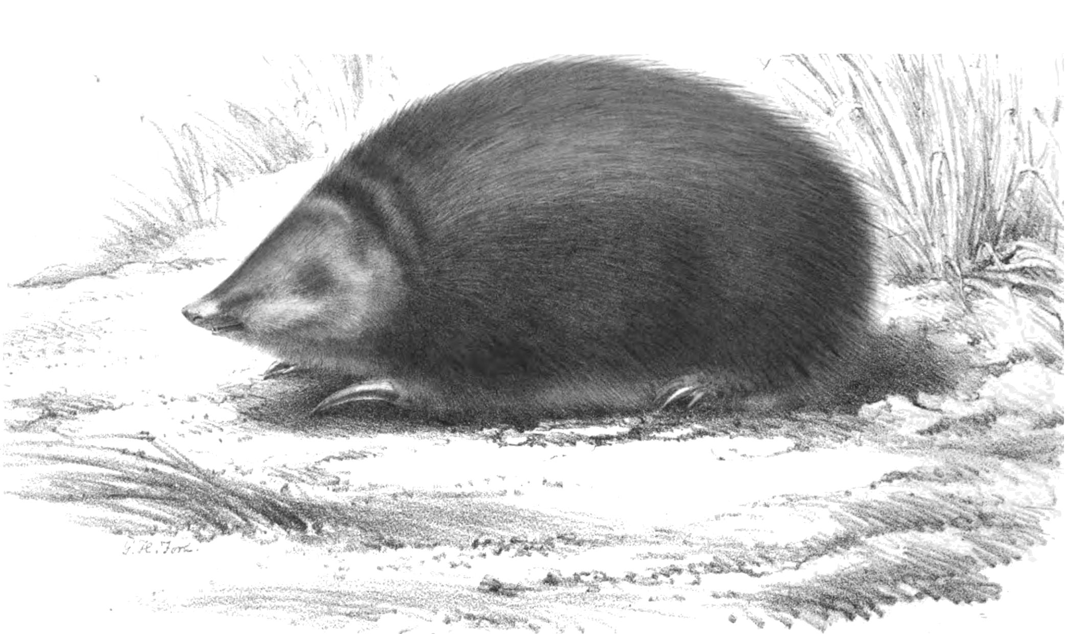 Drawing of Chrysospalax villosus published by Andrew Smith (under the scientific name Chrysochloris villosa): Illustrations of the Zoology of South Africa. Mammalia. London, 1839 (plate 9)